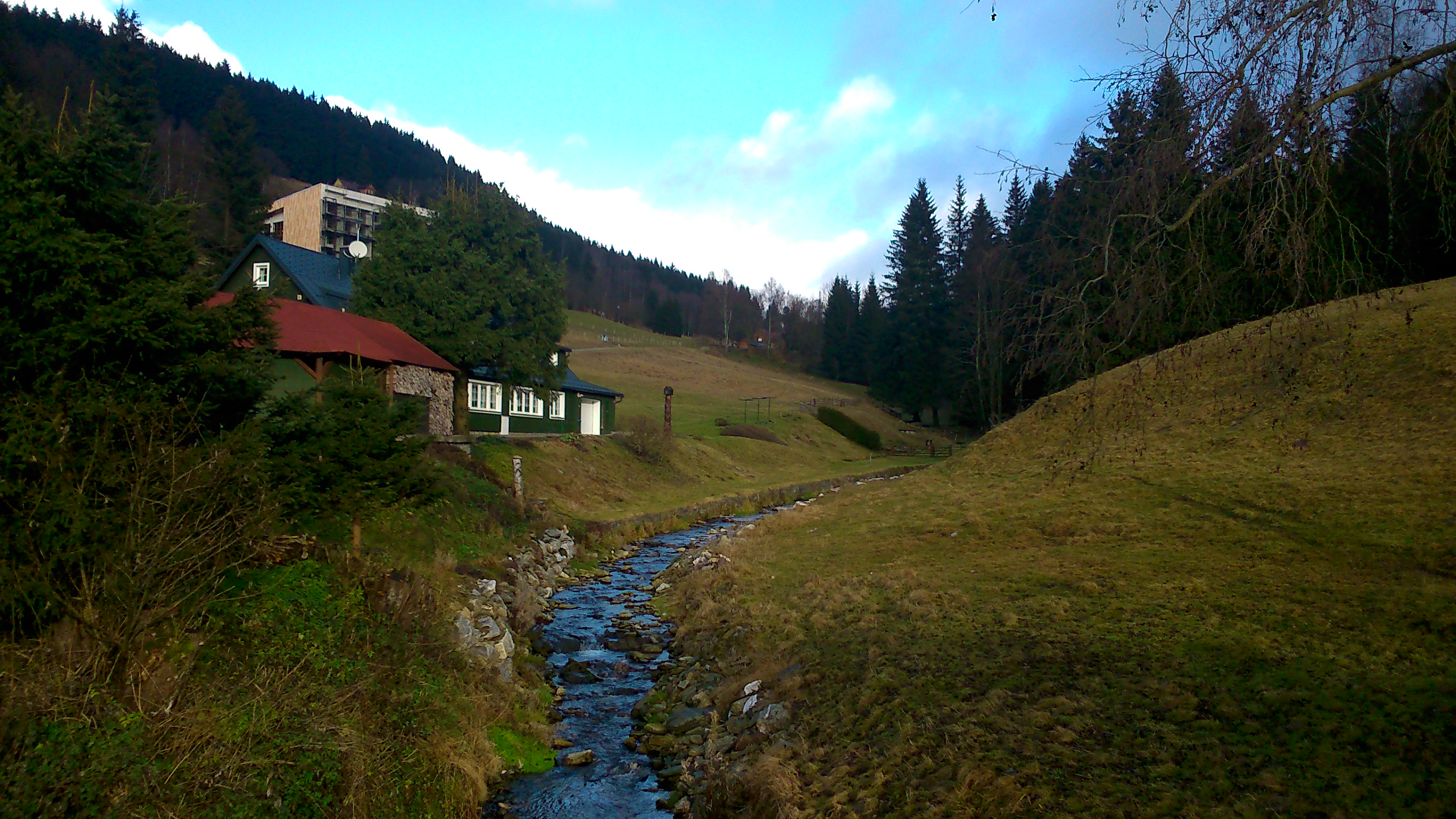 Malá Úpa - village in Czech Republic.